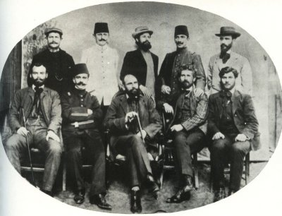 Sandanski, Hadjidimov, Panitza with Young Turks